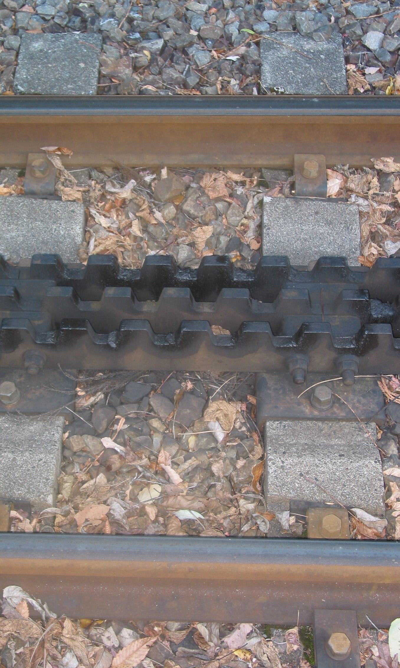 Abt rack system triple-rack track of the Ōigawa Railway Ikawa Line. I took this image. 大井川鐵道井川線の3枚ラックによるアプト式ラックレール 静岡県榛原郡川根本町梅地のアプトいちしろ駅構内で撮影。